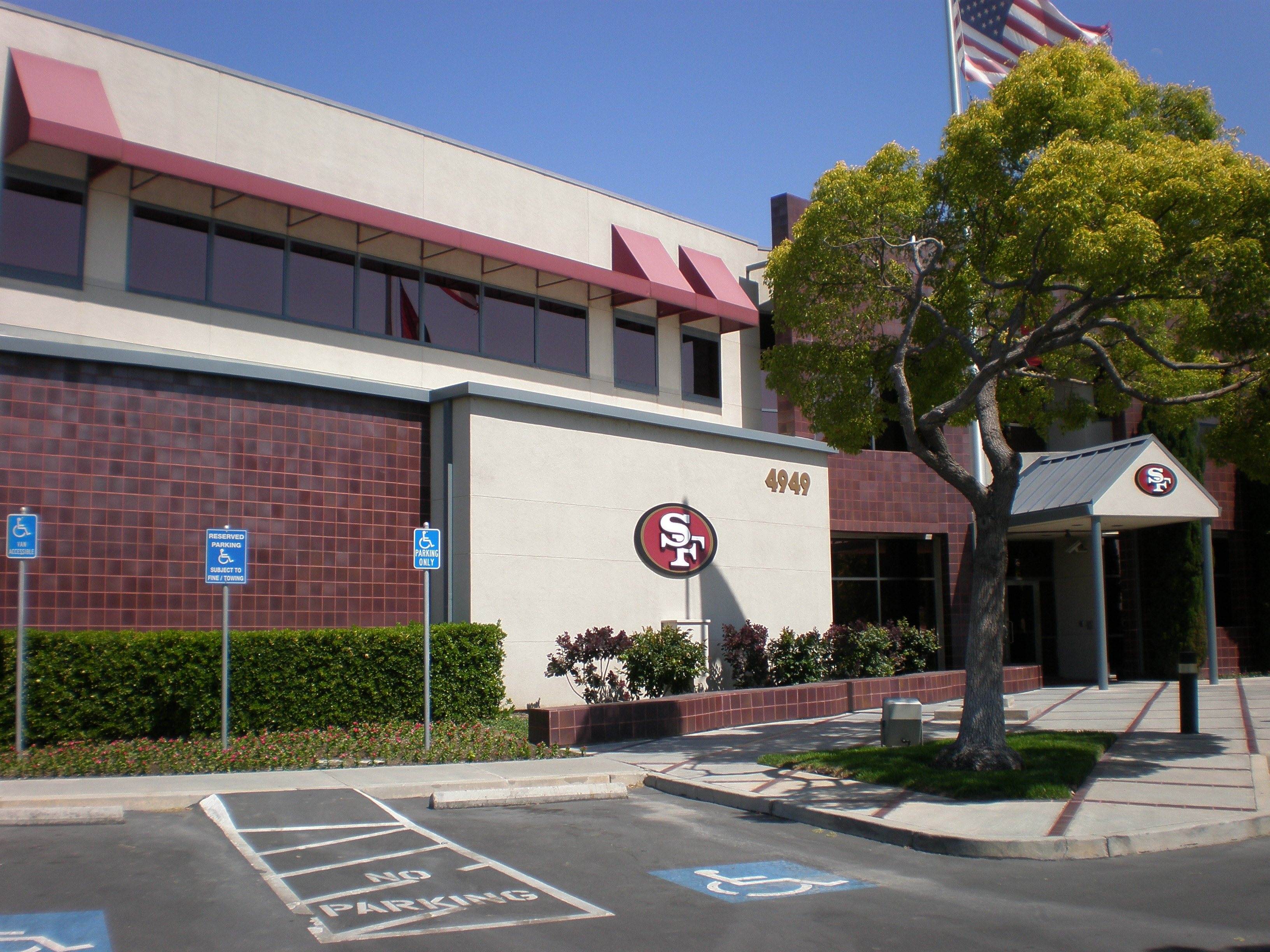 The Marie P. DeBartolo Sports Centre, the headquarters of the San Francisco 49ers, in Santa Clara, California.